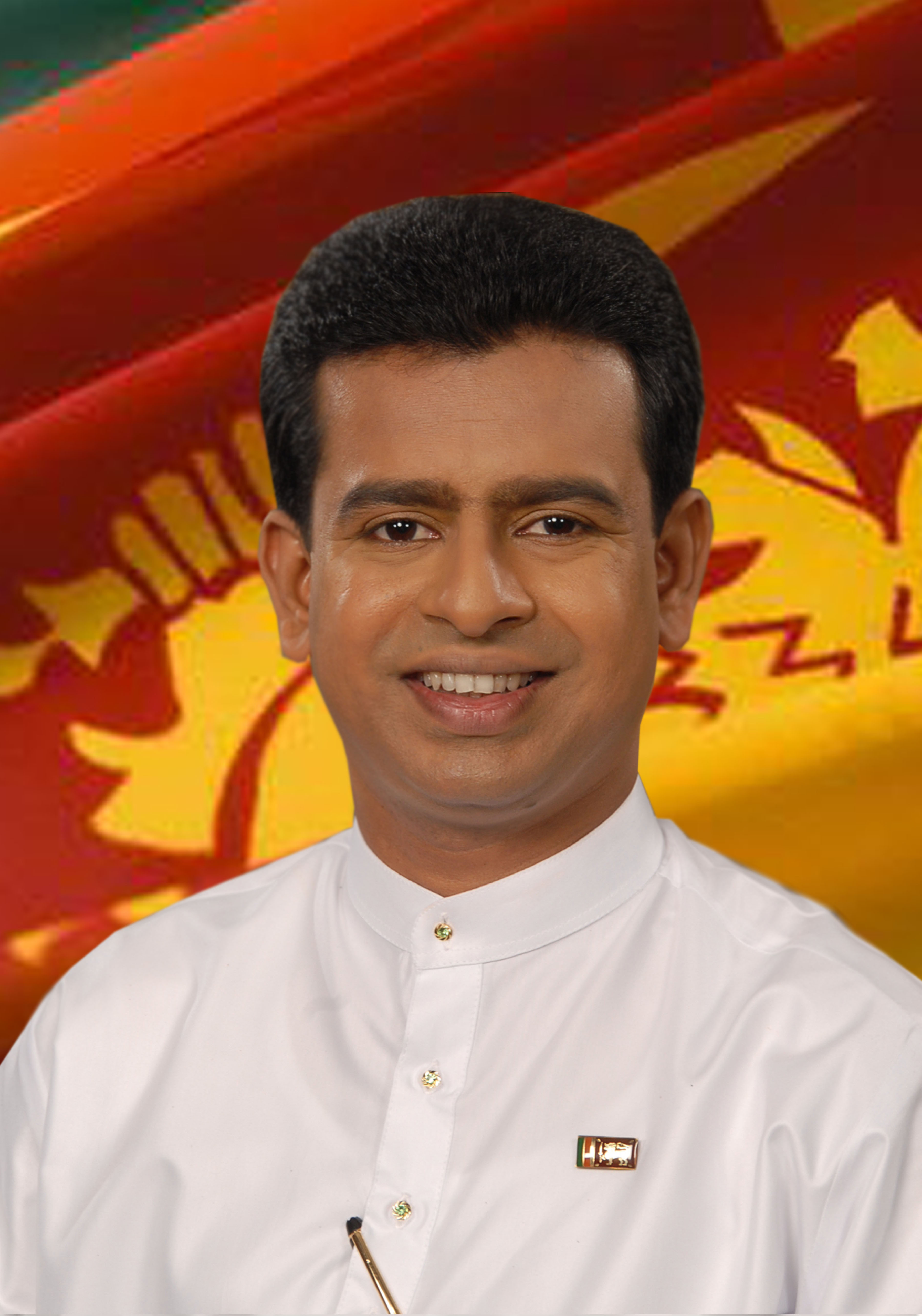 Buddhika Pathirana, Member of the Parliament in Sri Lanka